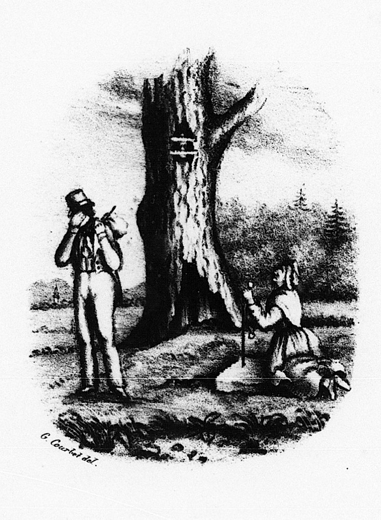 Vignette 01 signed Courbet for Essais poétiques by Max Buchon, Besançon, 1839.